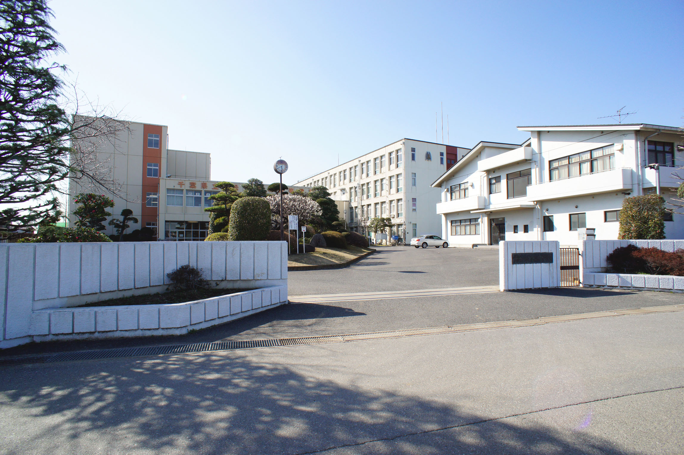 Matsudo-yakiri High School.